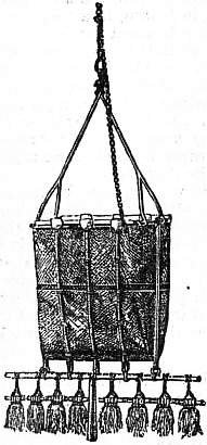 Deep-sea Dredge, with Tangle Bar.